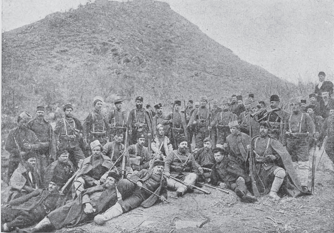 Cheta of bulgarian revolutionary Anastas Yankov from SMAC